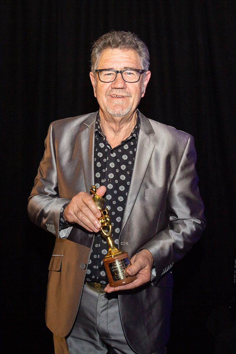 Photograph of New Zealand Country Music performer Brendan Dugan holding his Benny Award, presented by the Variety Artists Club of New Zealand on 14 October 2018 for a lifetime of excellence as a performing artist.